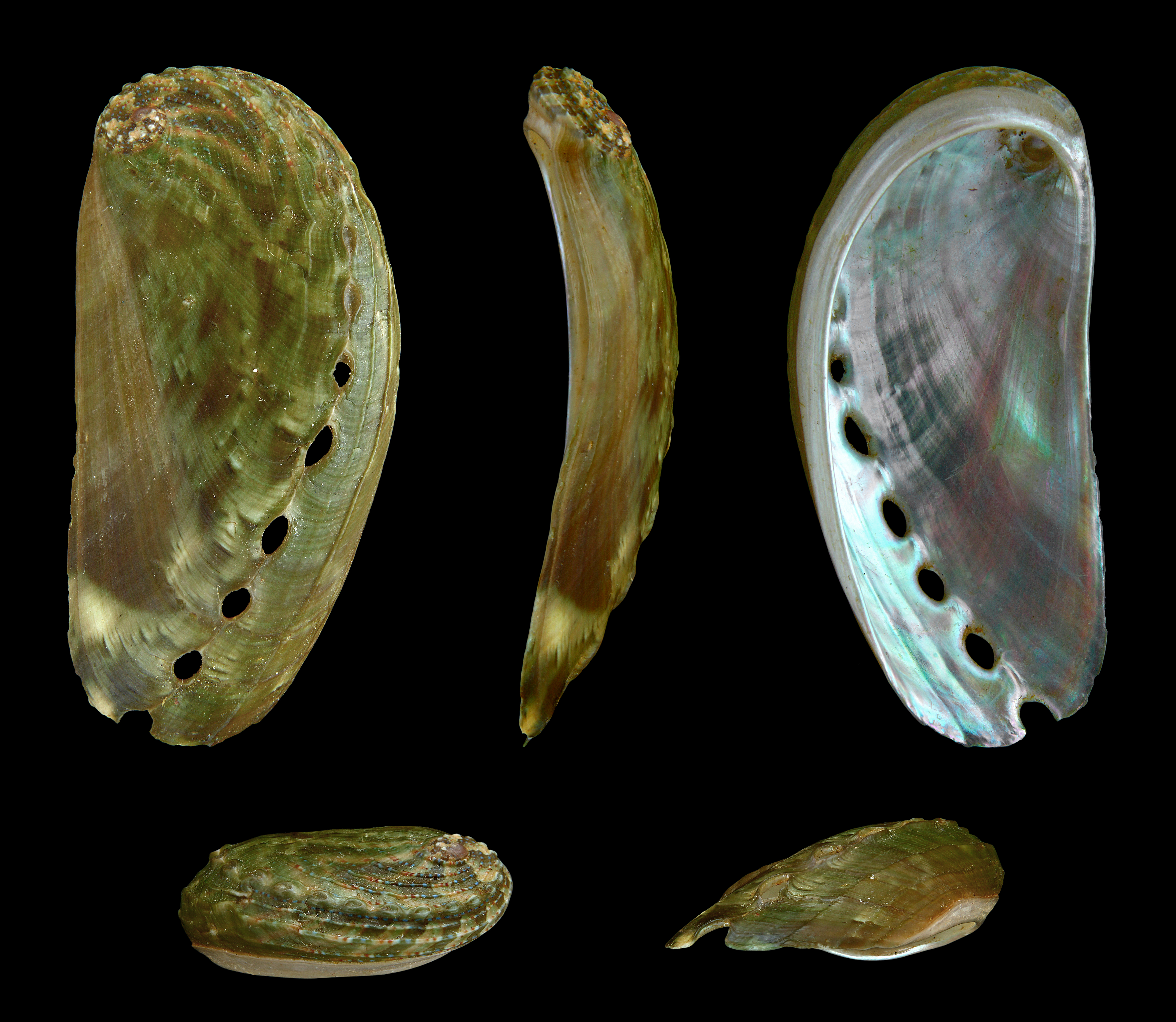 Ass's Ear Abalone; Length 4.0 cm; Originating from the West-Pacific; Shell of own collection, therefore not geocoded. Dorsal, lateral (right side), ventral, back, and front view.